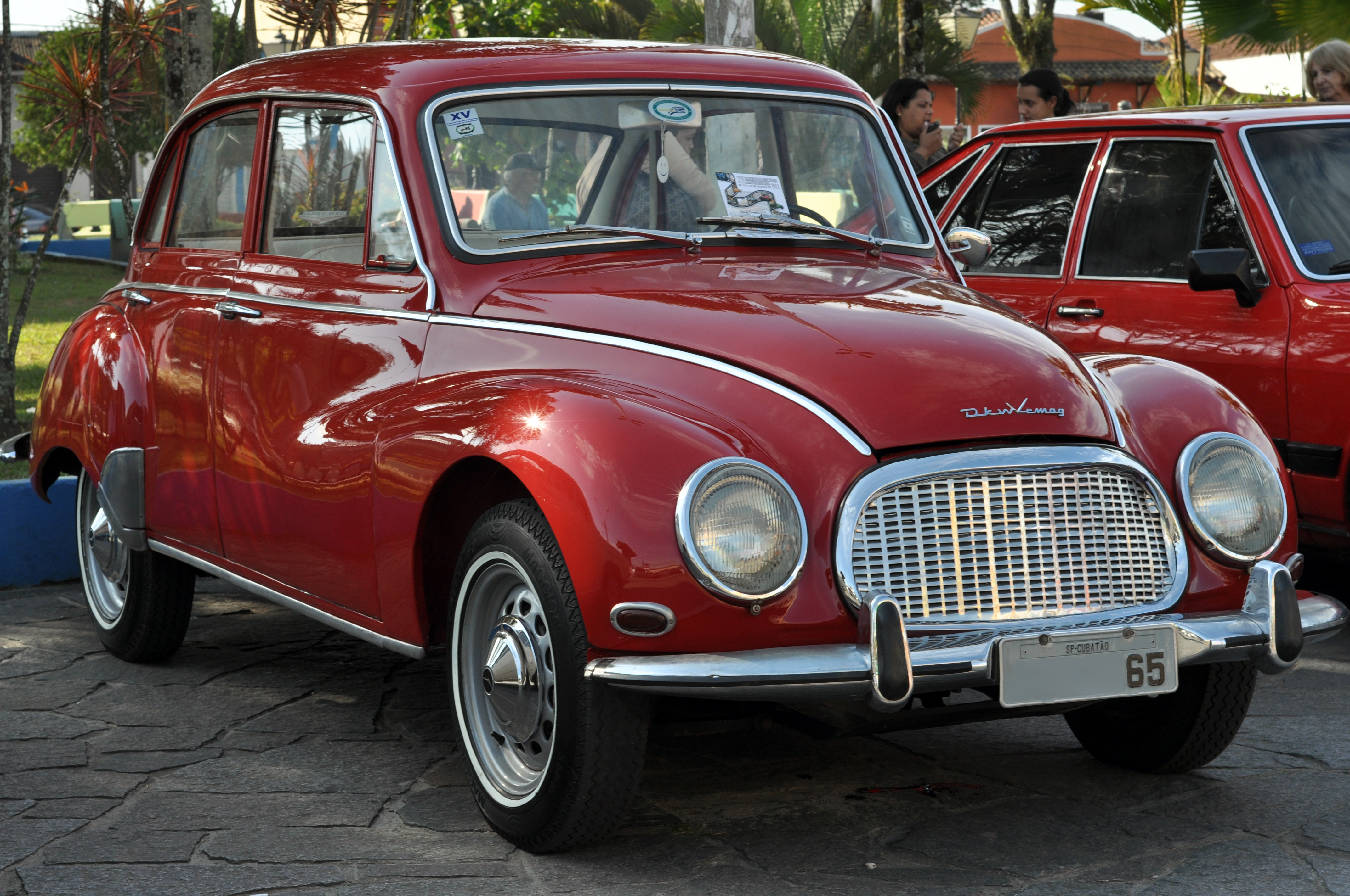 1965 DKW Vemag Belcar Rio at an old car show in Itanhaém, Brazil